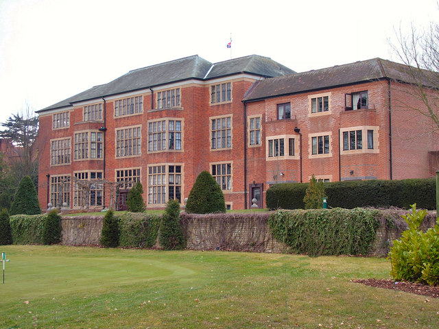 Hanbury Manor. Originally a Jacobean style mansion built in 1890 by Edmond Hanbury, it then became a convent, and is now a Five Star Hotel & Country Club with an eighteen hole Golf Course.